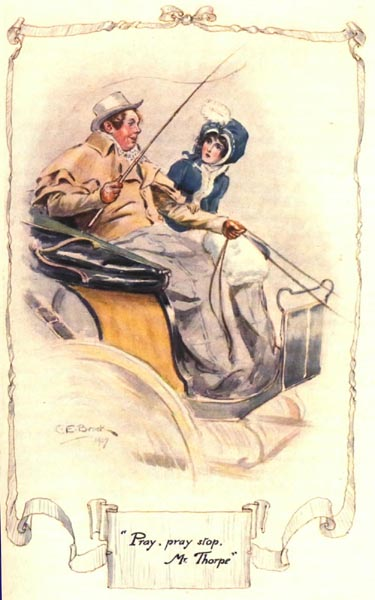 Colour illustration of a 1907 edition of Northanger Abbey (Jane Austen's novel), by C. E. Brock (died 1938)